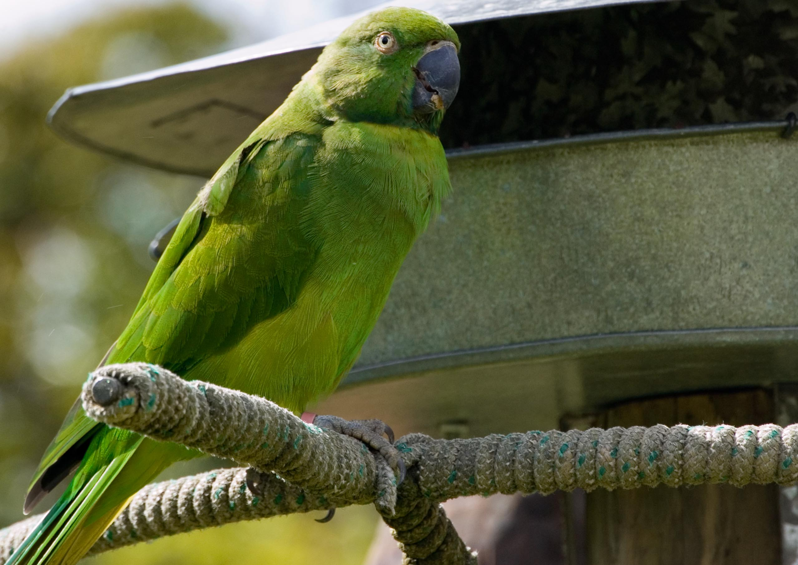 Echo parakeet (Psittacula eques echo), the rarest Parrokeet in the world, saved from extinction by captive breeding programme at the Durrell trust Blackwater Gorge. The Mauritius Parakeet, also known as Echo Parakeet. Its local name is katover. It is a subspecies of ('Psittacula eques).